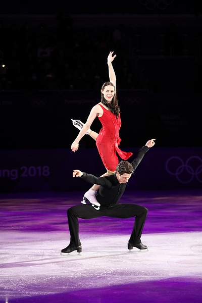 Gala exhibition at the 2018 Winter Olympics